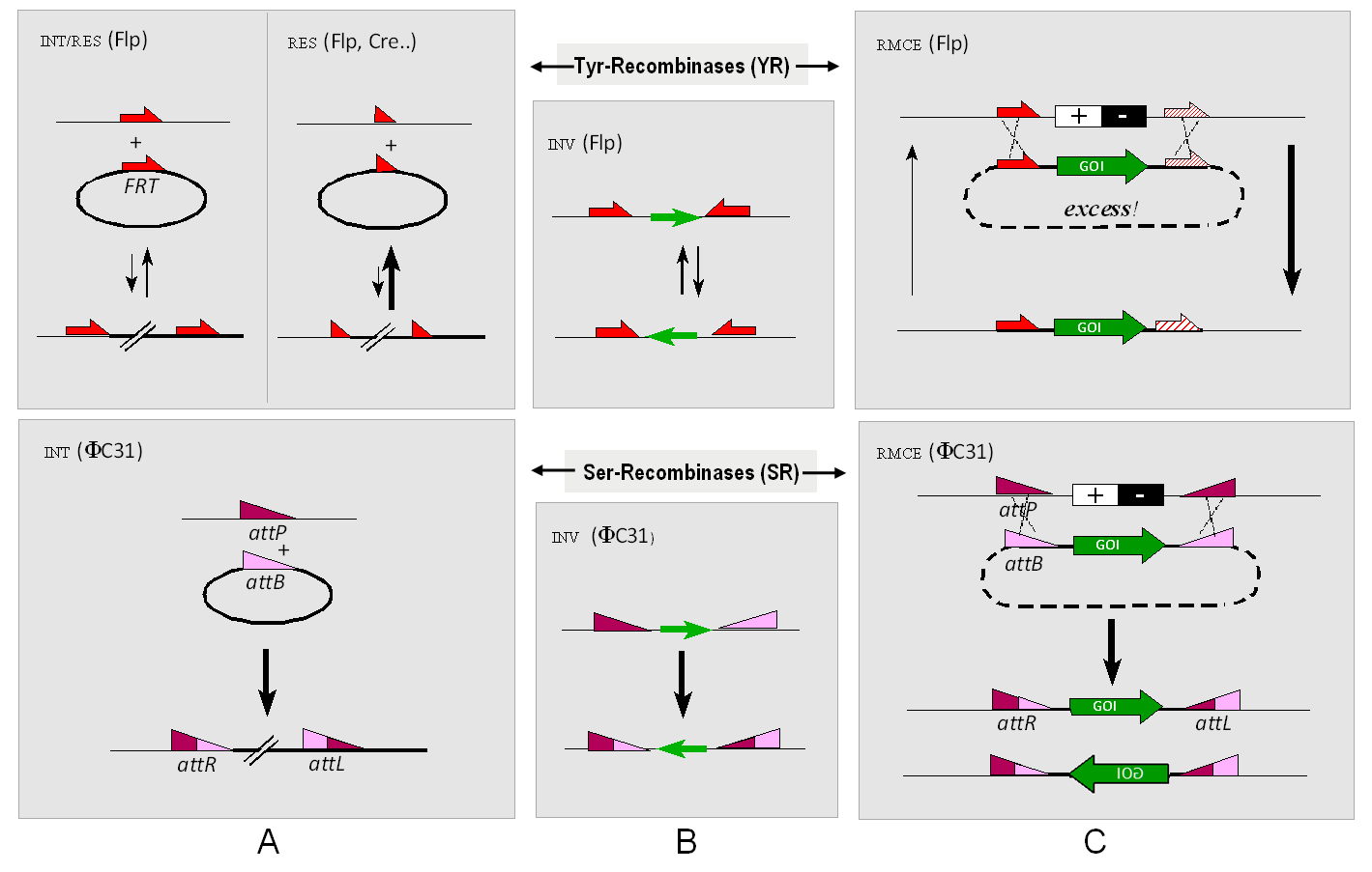 Site-specific recombinases: Sections A-B: the mode integration/resolution and inversion depend on the orientation of recombinase target sites (RTS), among these pairs of attP and attB. Section C indicates, in a streamlined fashion, the way recombinase-mediated cassette exchange (RMCE) can be reached by synchronous double-reciprocal crossovers (rather than integration, followed by resolution).